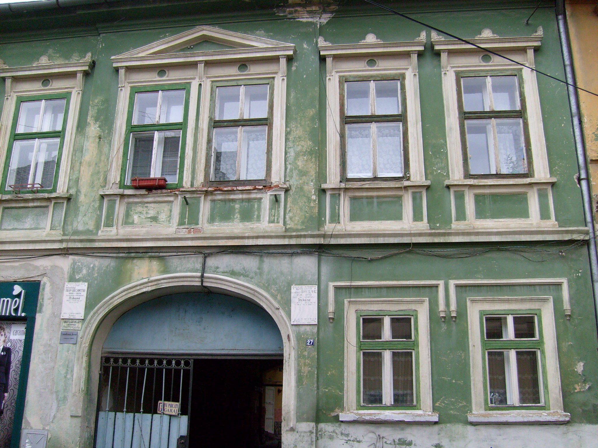 Slavici House in Sibiu.